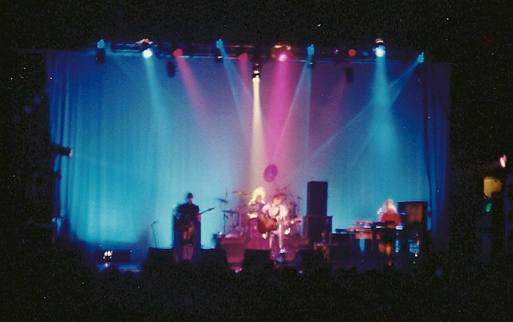 The Samples, playing at the Agora Theatre in Cleveland